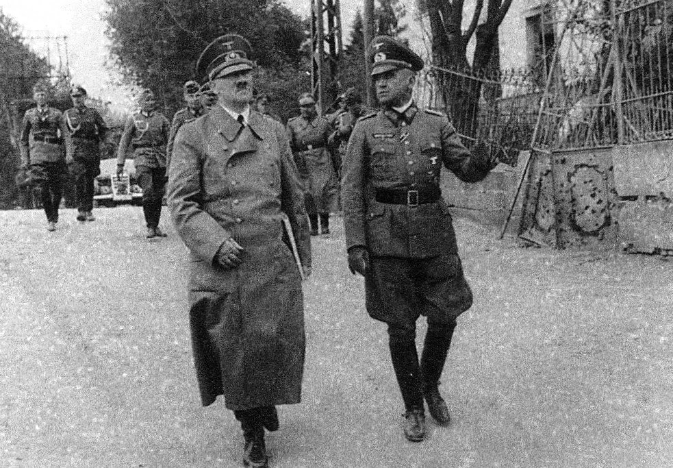 Adolf Hitler touring the WWI battlefields near Arras with General Walter Heitz, a fellow Western Front veteran